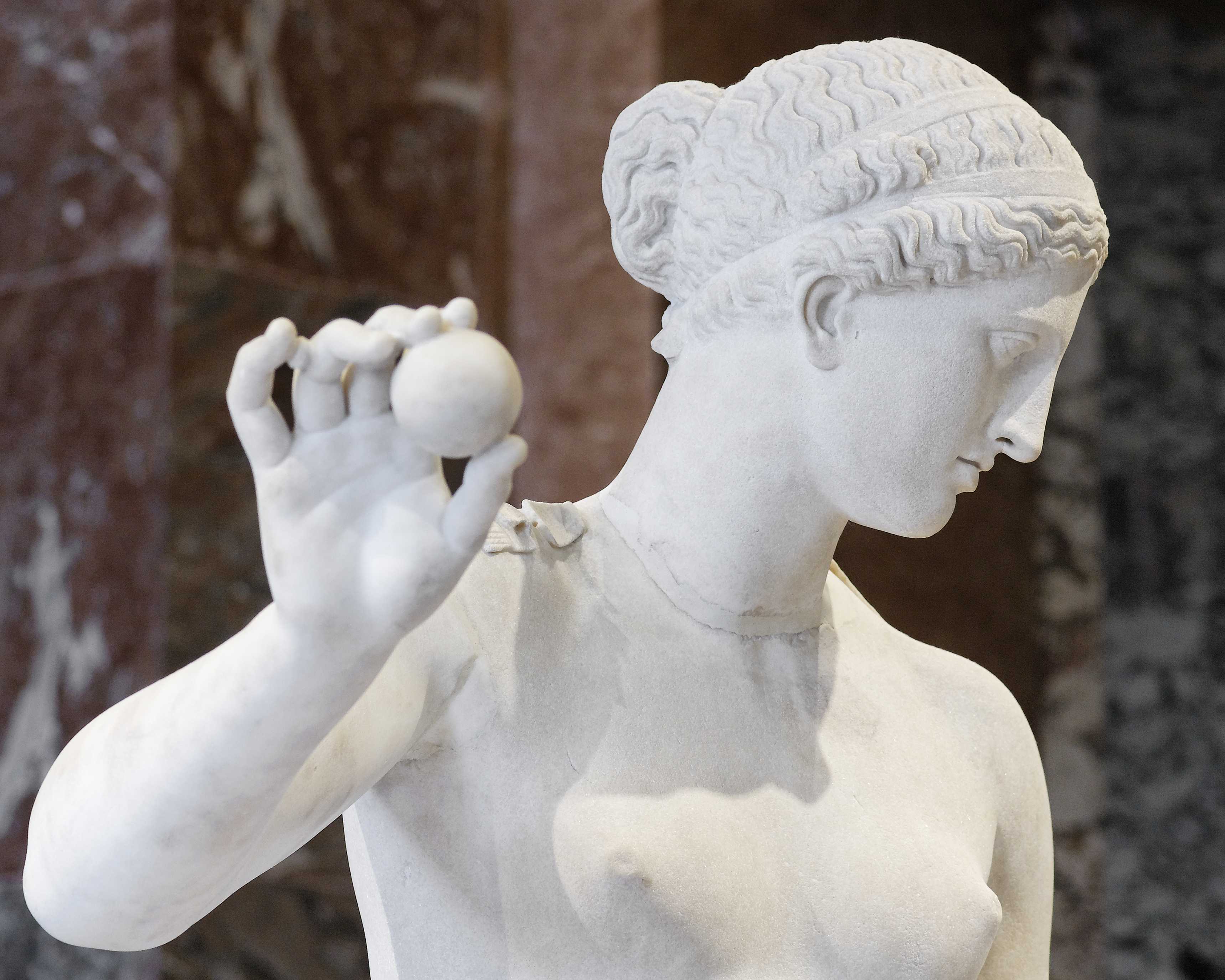 Statue of Aphrodite, known as the Venus of Arles. Hymettus marble, Roman artwork, imperial period (end of the 1st century BC), might be a copy of the Aphrodite of Thespiae by Praxiteles. The apple and the mirror were added during the 17th century. Found in the ancient theatre of Arles, France.